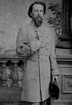 John Rogers Cooke, Confederate General. Source: [1]